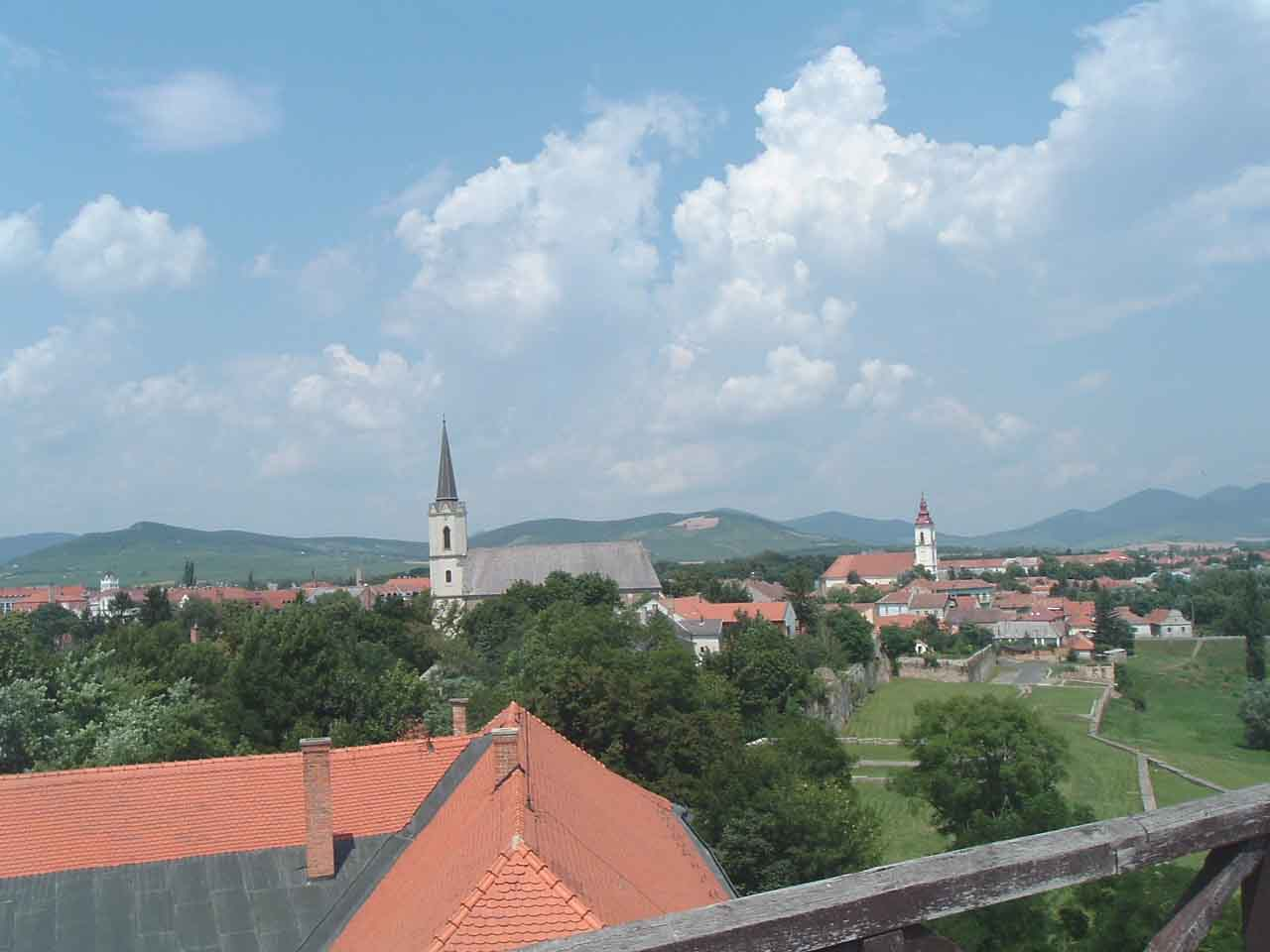 Town of Sárospatak from the Castle